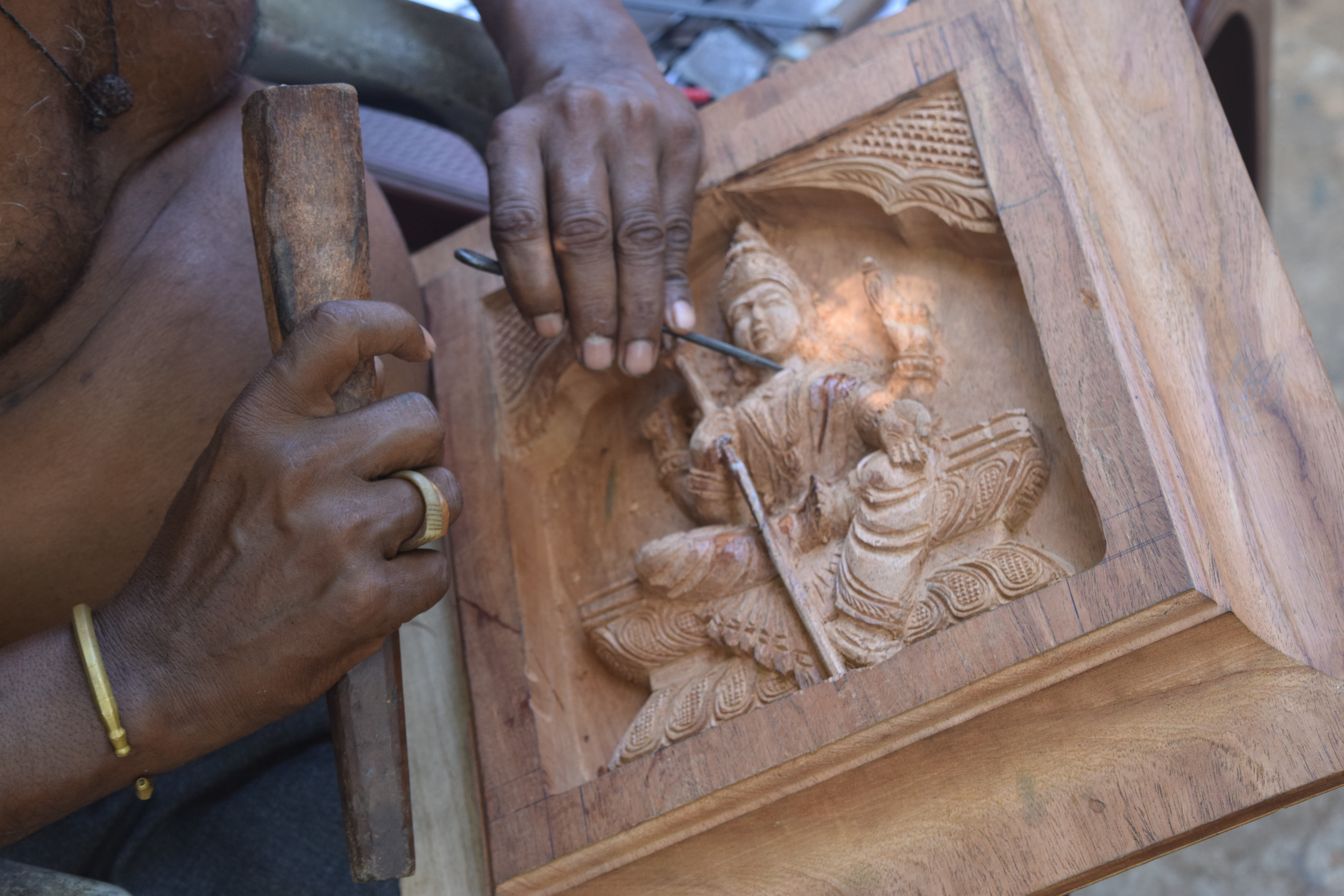 வேம்பு , தேக்கு போன்ற மரங்களில் கடவுள்களின் உருவம் செதுக்கப்படும்